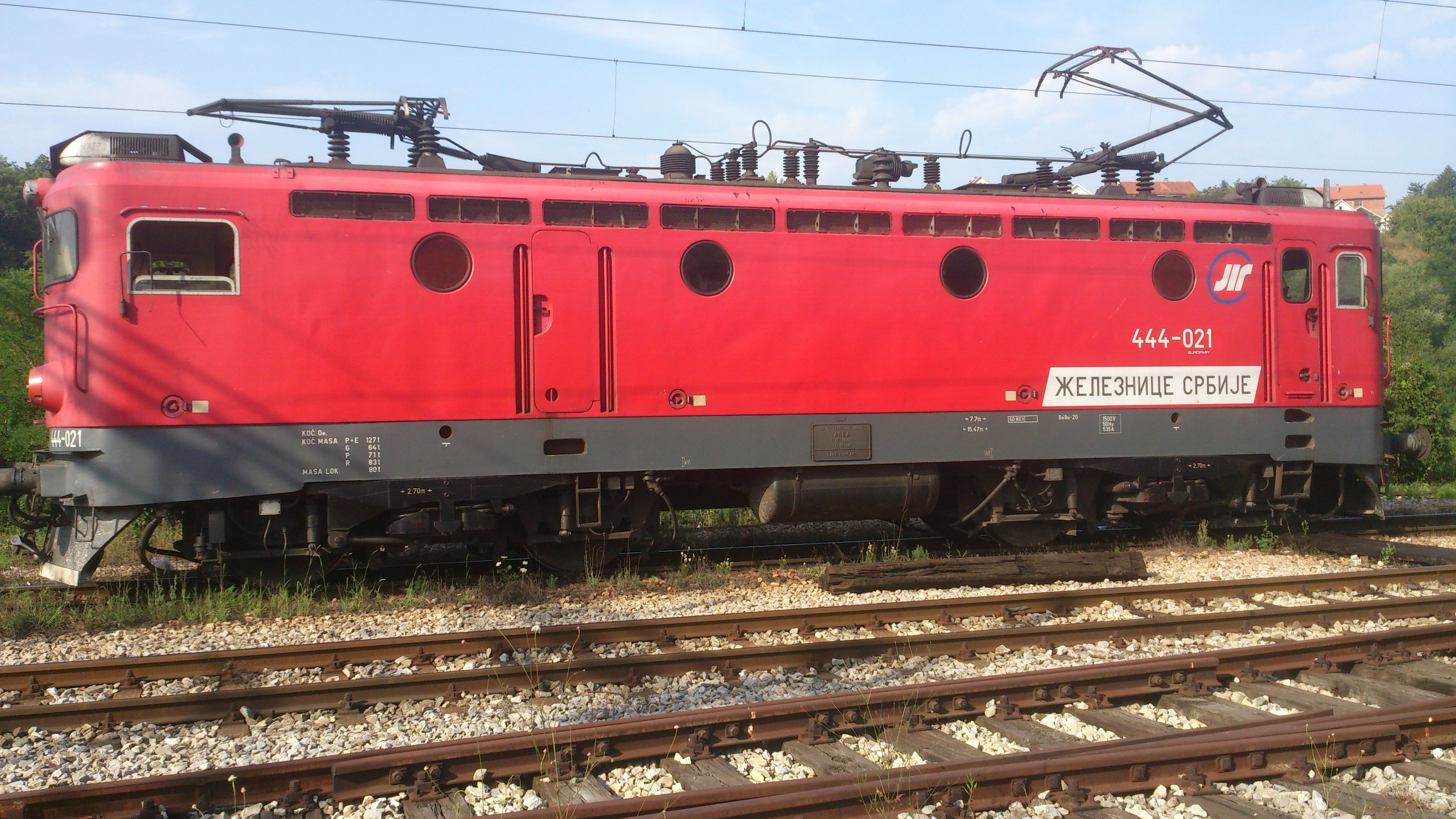 Locomotive 444 021 in Jajinci railway station